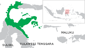 Location of Central Sulawesi Province on Sulawesi Island, Indonesia